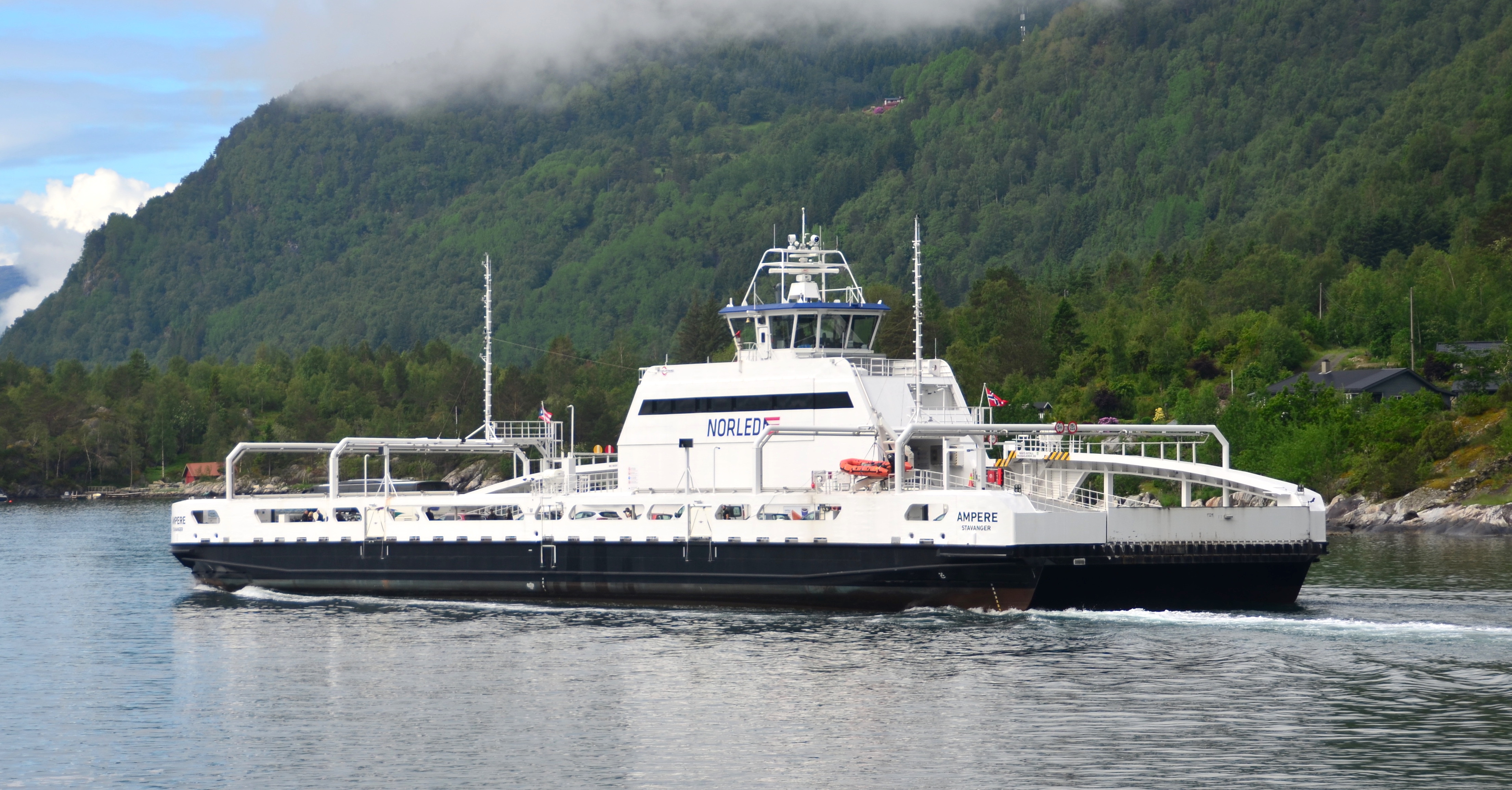 Ferry Ampere (built 2014) with electric propulsion, on Sognefjord, close to Lavik harbour